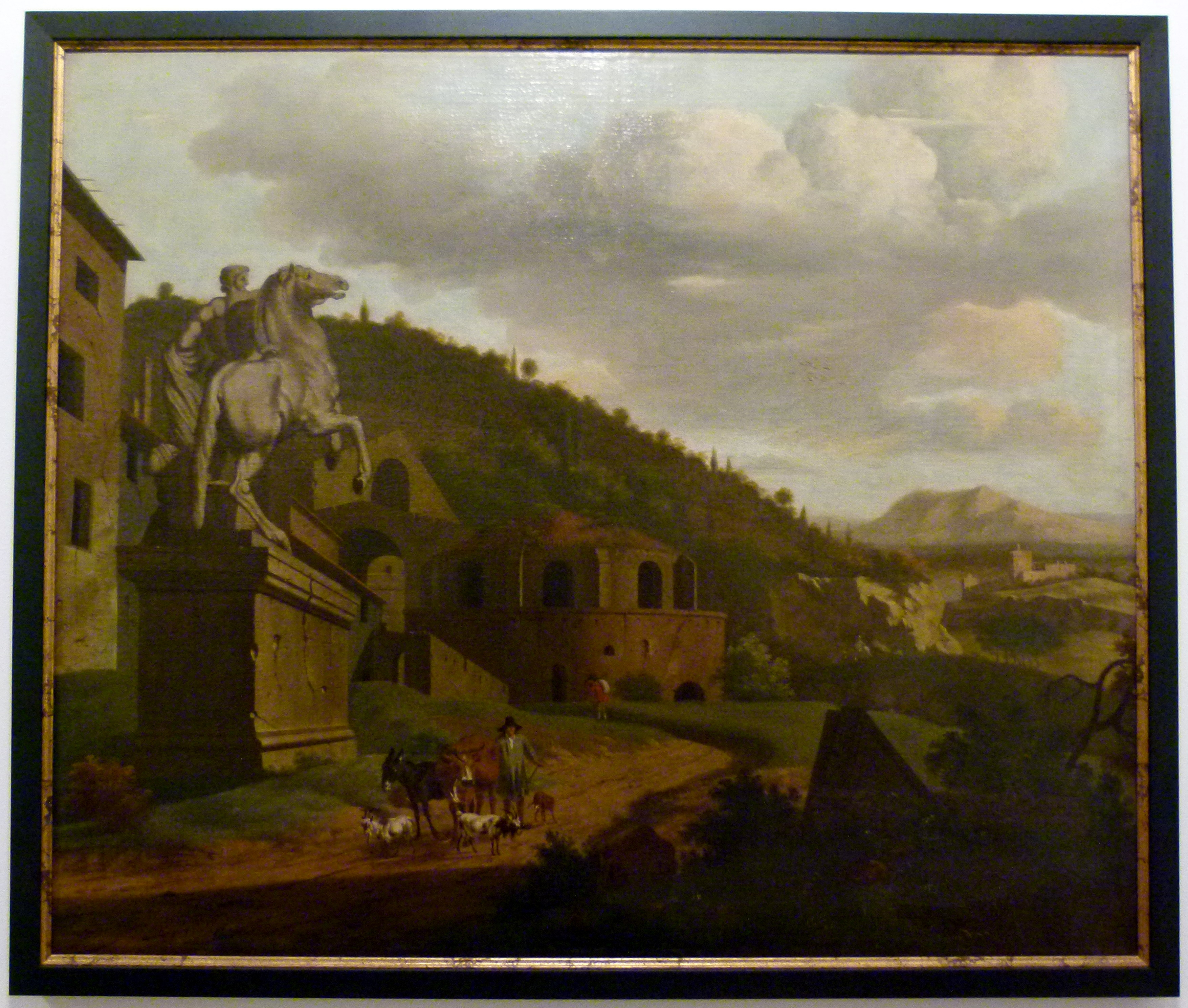 Pastoral landscape with one of the statues of horse tamers in Rome, 1684. Collection of old art, Bonnefantenmuseum, Maastricht, the Netherlands.